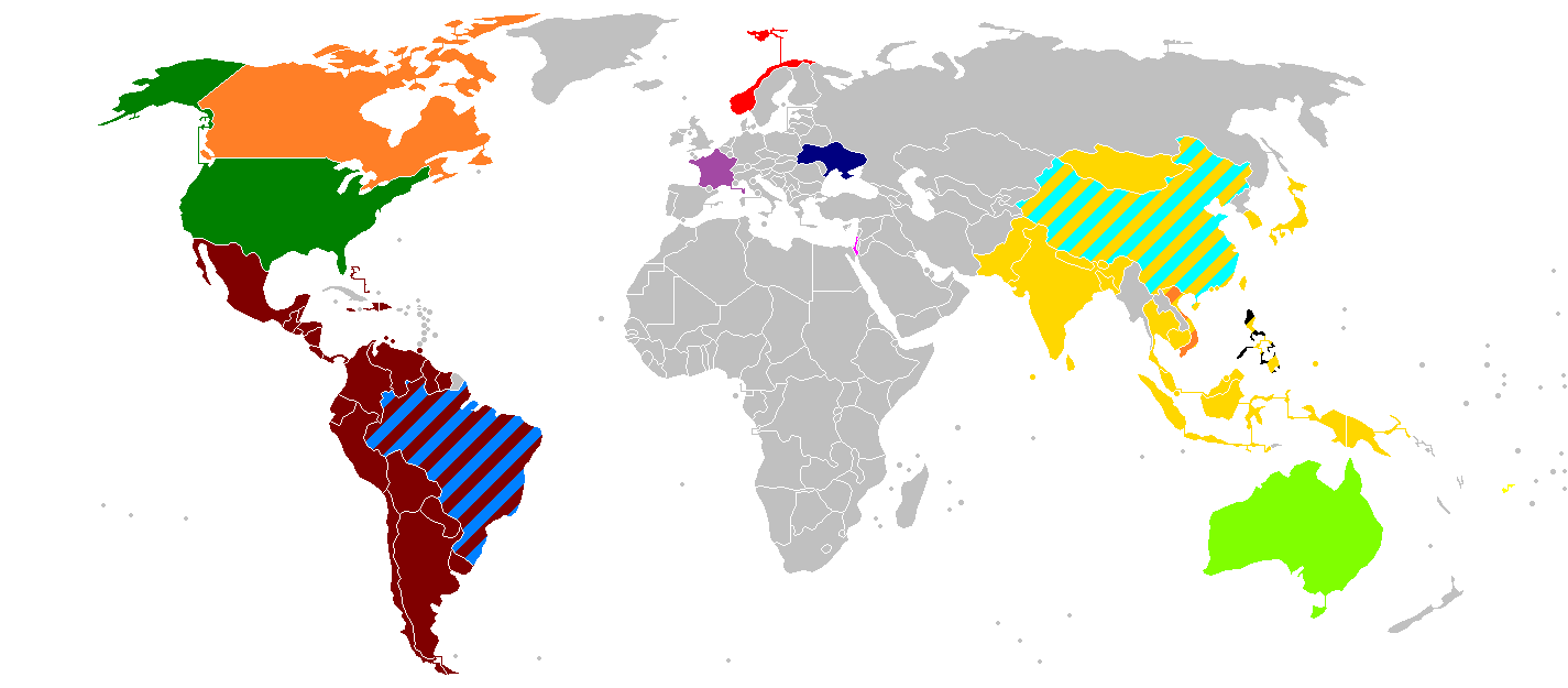 Countries/continents who have their own version of The Amazing Race